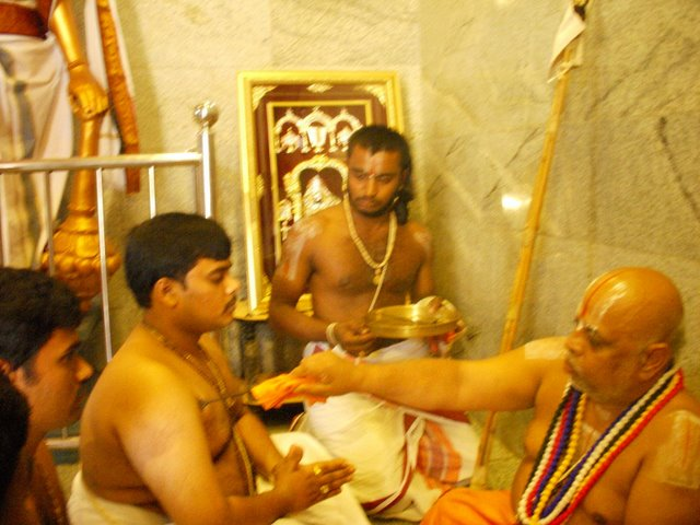 Impressing red hot Sudarshana Chakra as a part of PanchaSamskarams